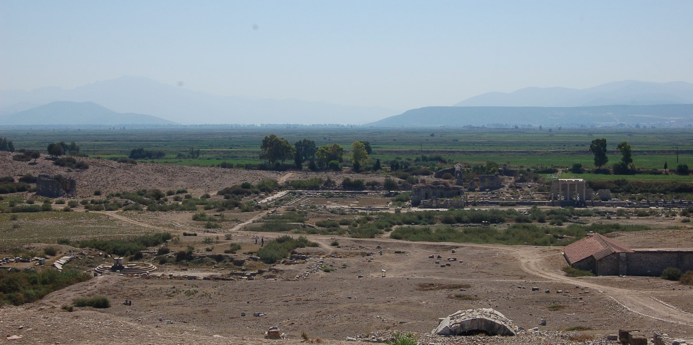 View from the Miletus theatre to ESE. In the central parts of the picture there is the northern agora and to the left there is what was once the Lions' Harbour. Where nowadays there are the green plains of Büyük Menderes River, in ancient times the sea extended between the mountains that can be seen in the background. Nowadays Lake Bafa ist what remains of the sea.